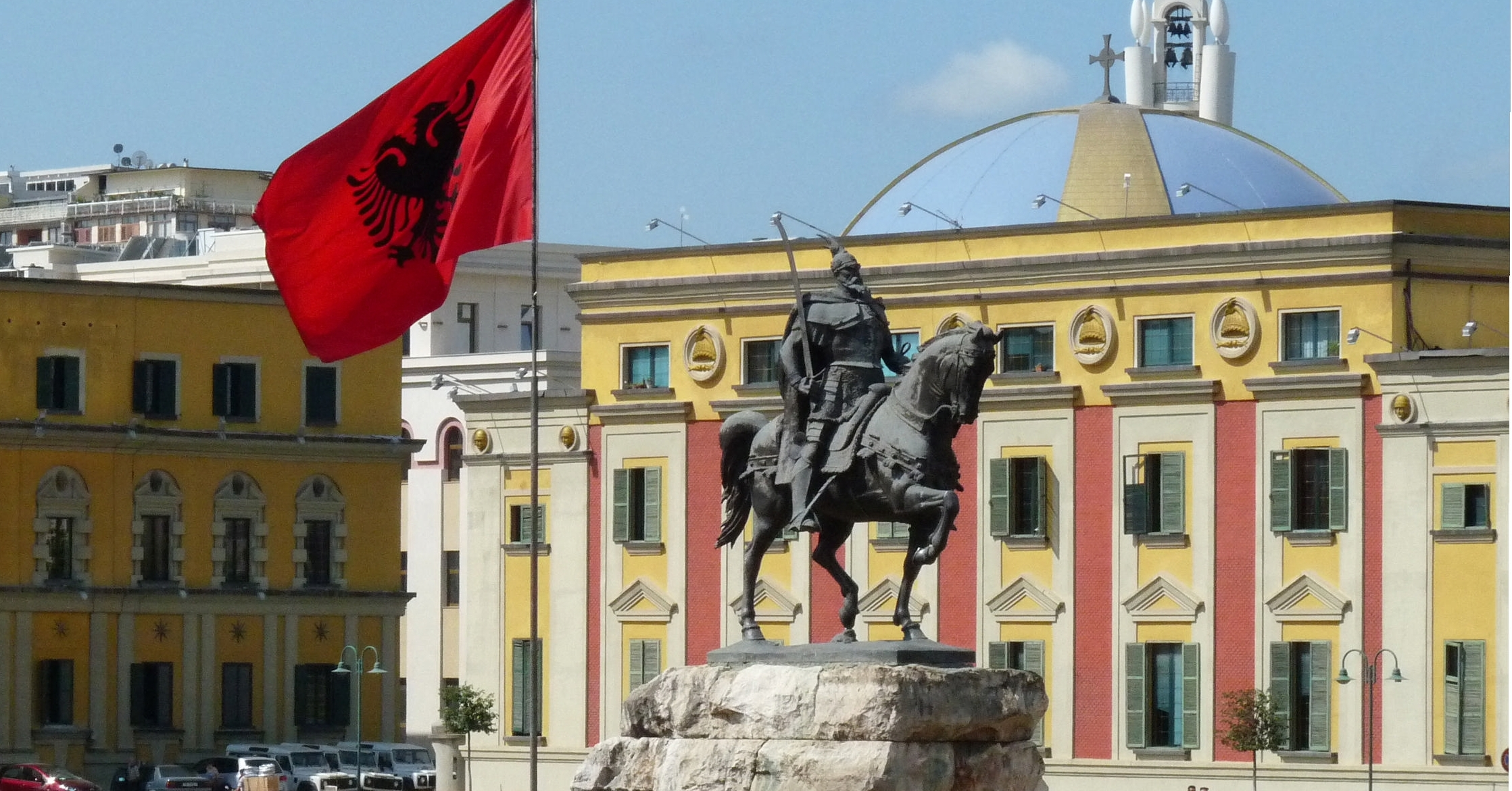 The city of Tirana in Albania.